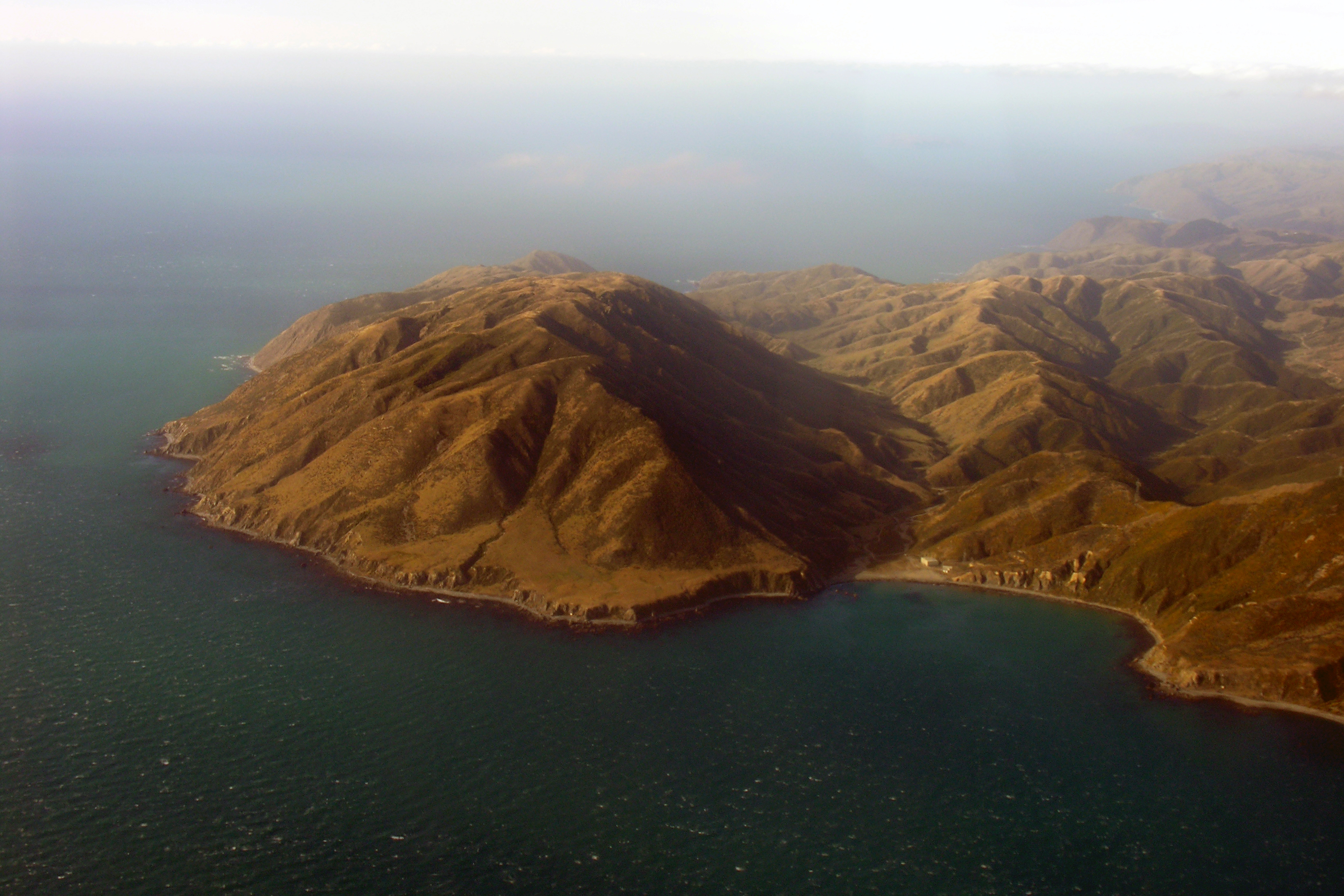 Image by PhillipC. Image at